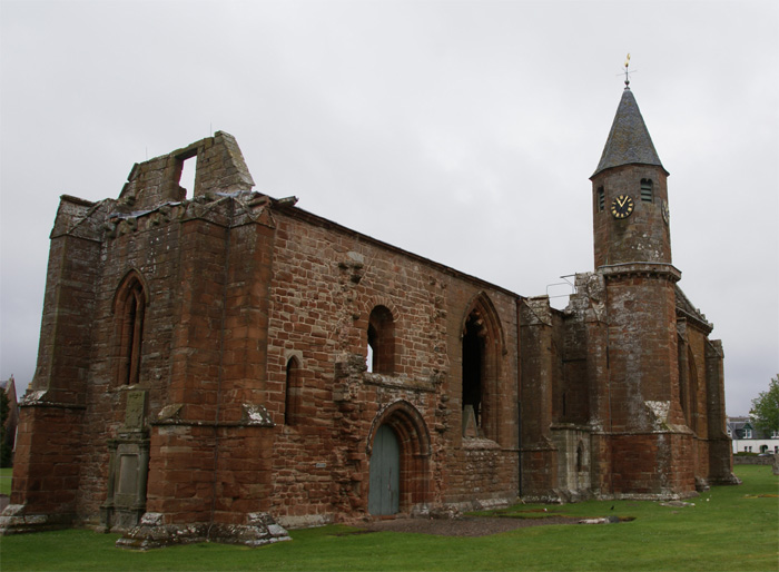 Fortrose Cathedral, Highlands, Scotland - view from south west